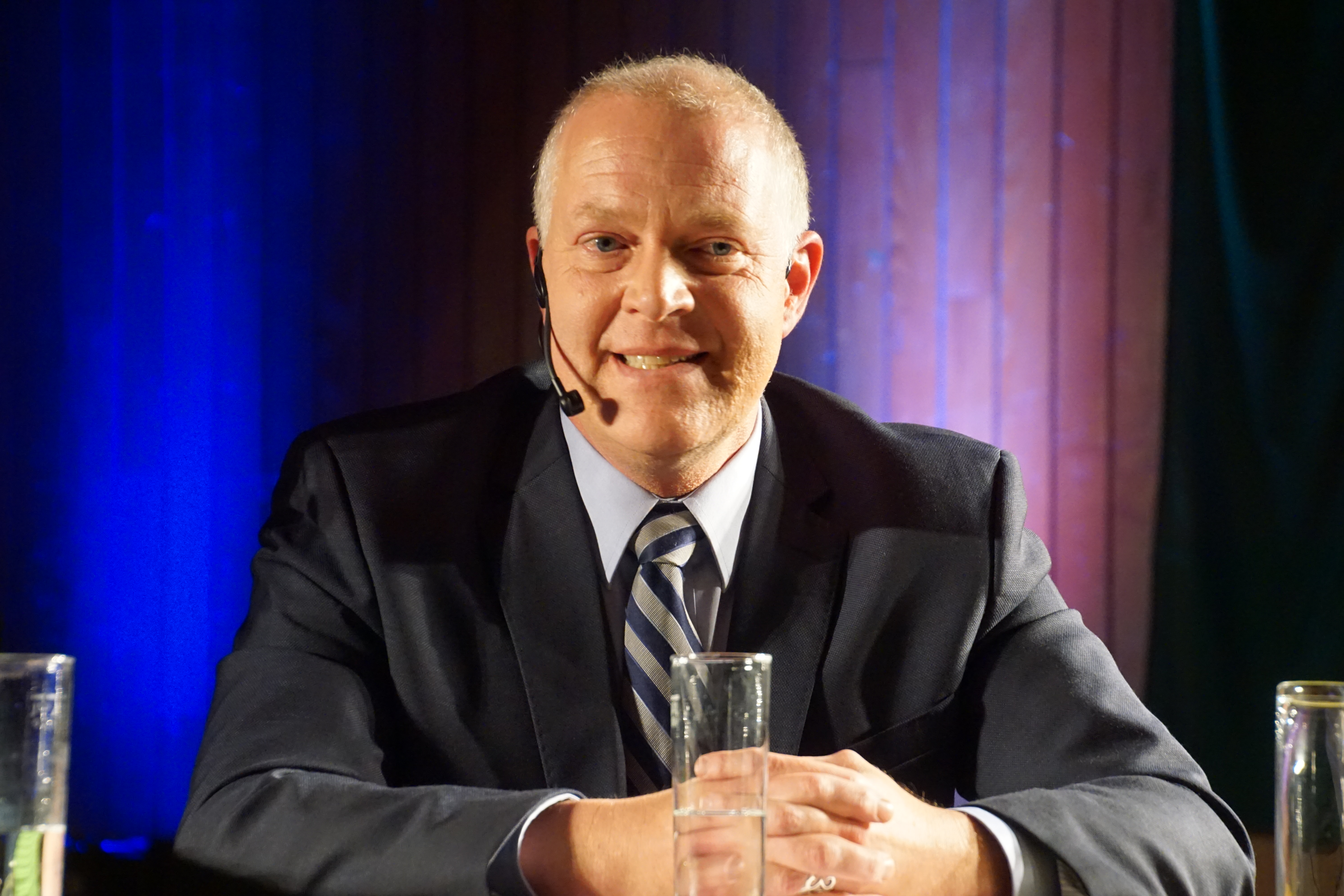 Andrew Denison, visit at the CJD Christophorusschule Königswinter